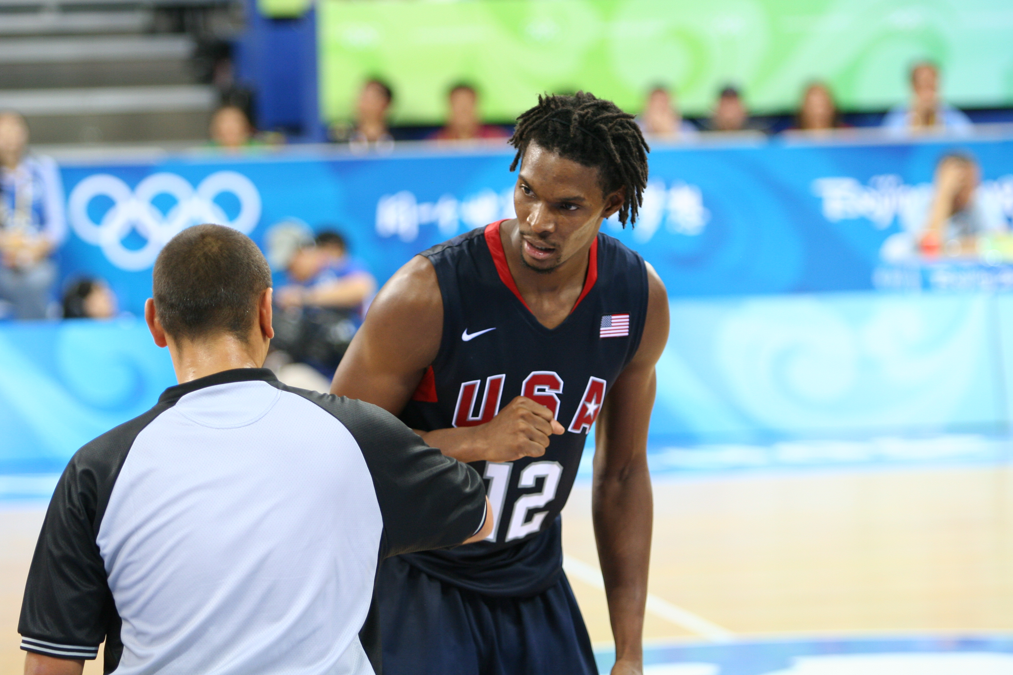 Chris Bosh (Toronto Raptors, USA)